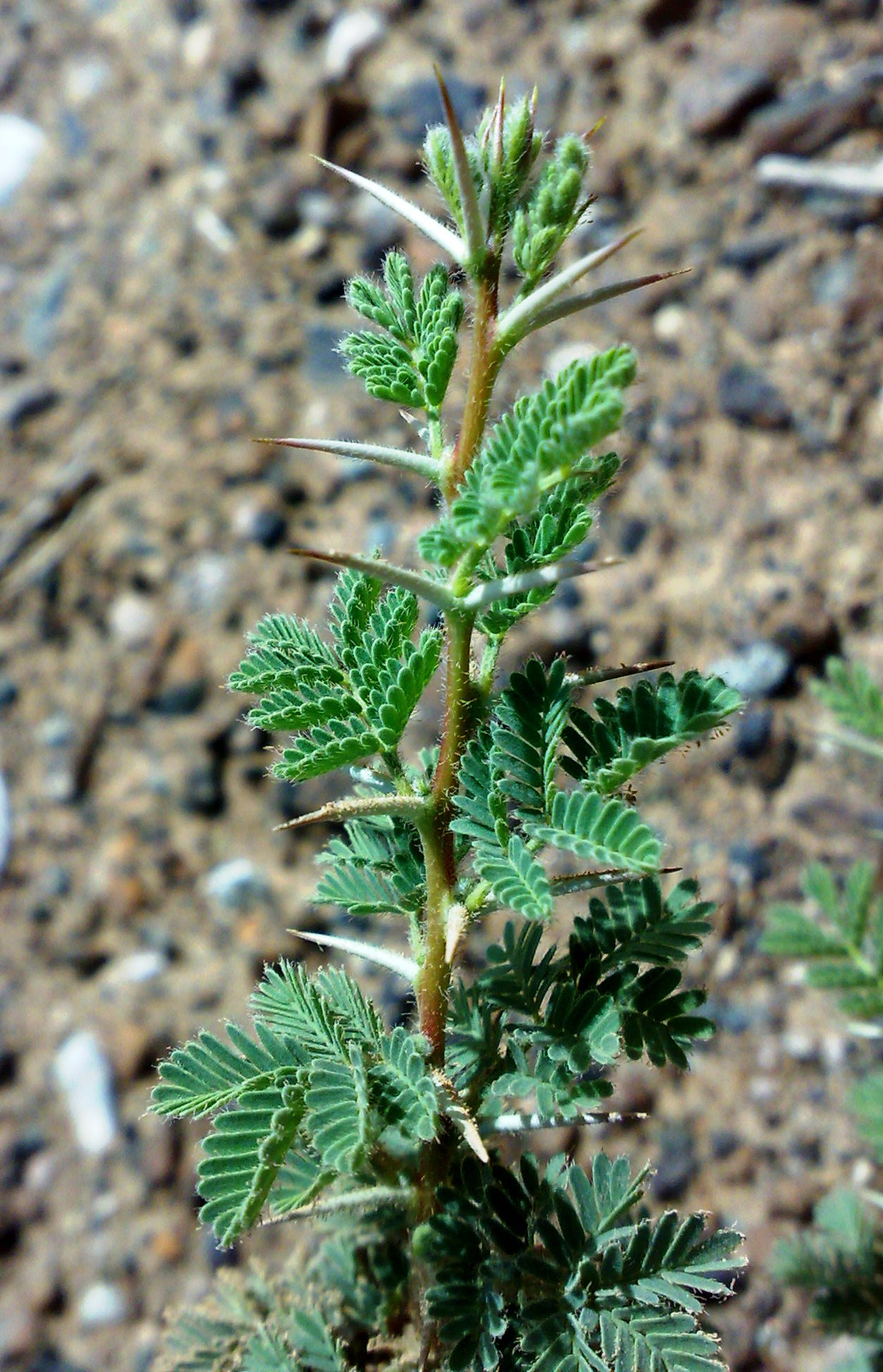 Acacia tortilis in the semi-desert west of Hatta, in the mountains west of the Indian Ocean coast, southeast United Arab Emirates.